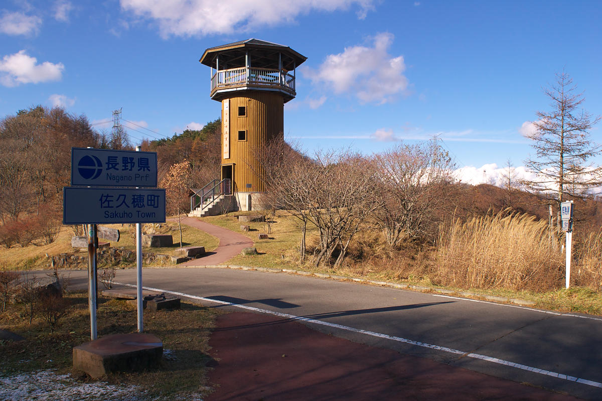 Route 299 Jikkoku-Toge pass.